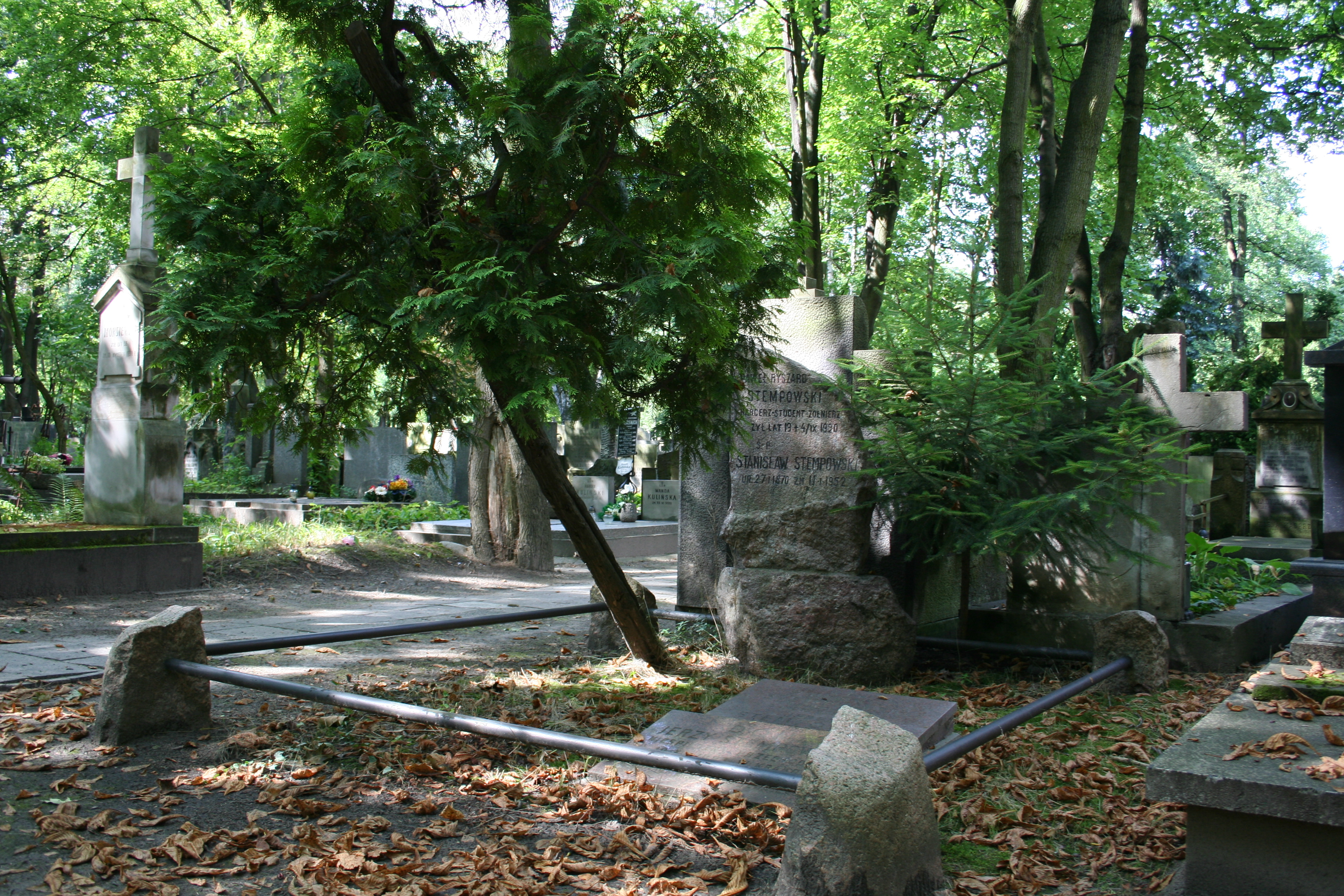 Grave of Jerzy Stempowski and Stanisław Stempowski at Powązki Cemetery in Warsaw, Poland